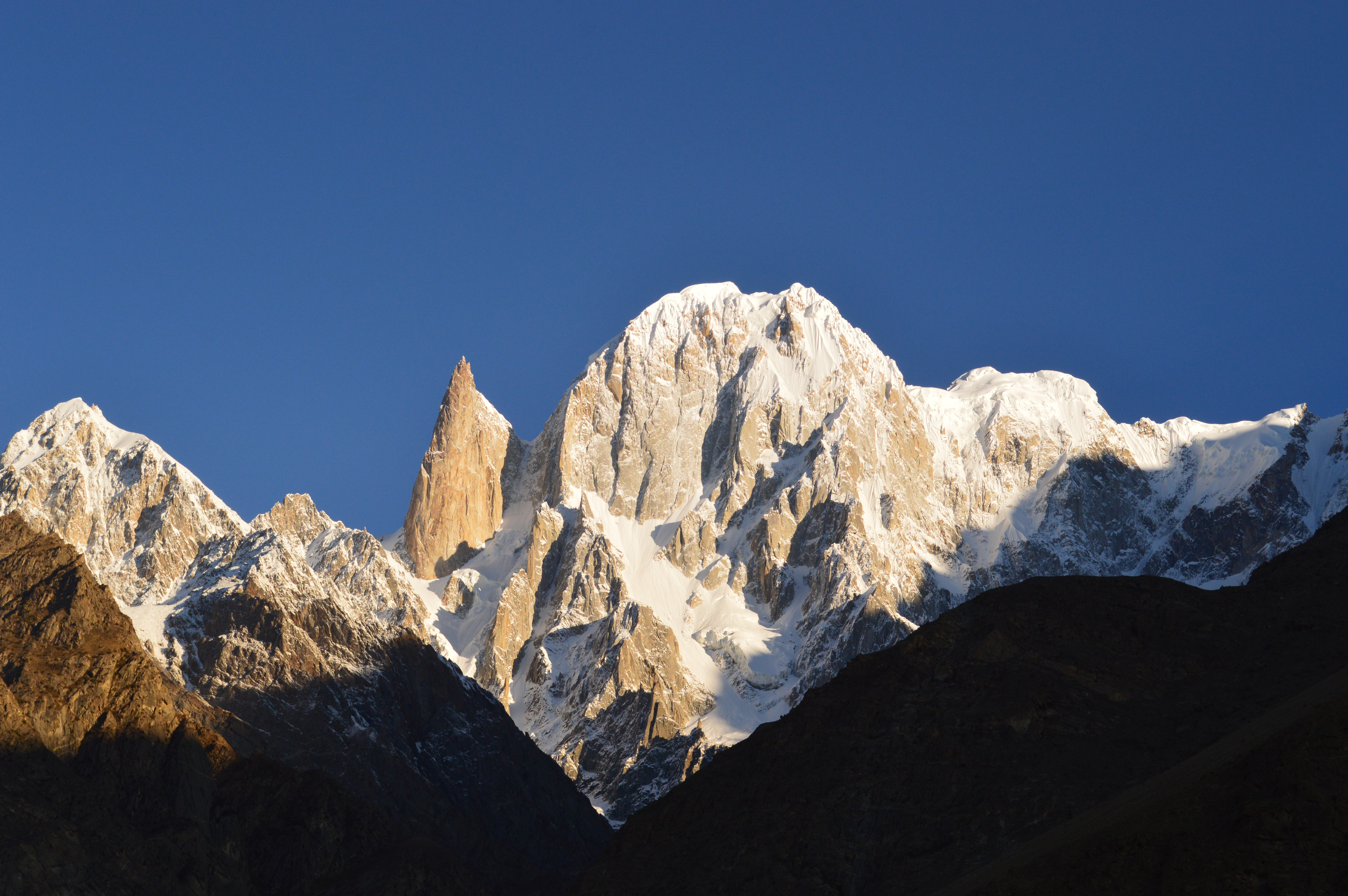 Lady Finger Peak (6000 m ASL) is an attractive peak in Hunza Valley, Gilgit-Baltistan, Pakistan.